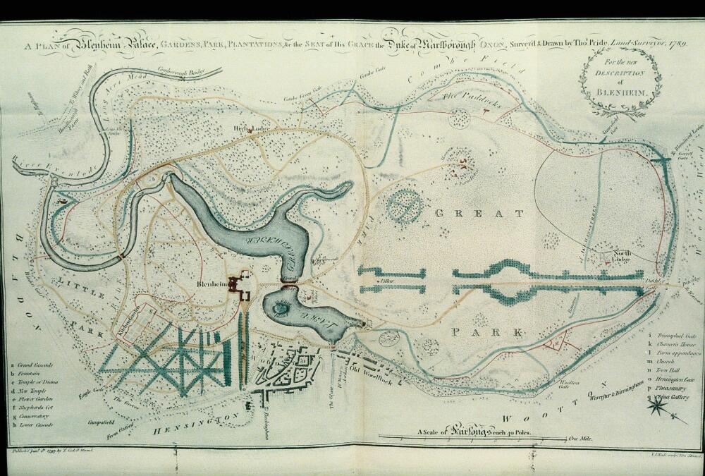 Plan of Blenheim, the seat of the Duke of Marlborough, in Thomas Pride, New Description of Blenheim, 1803.